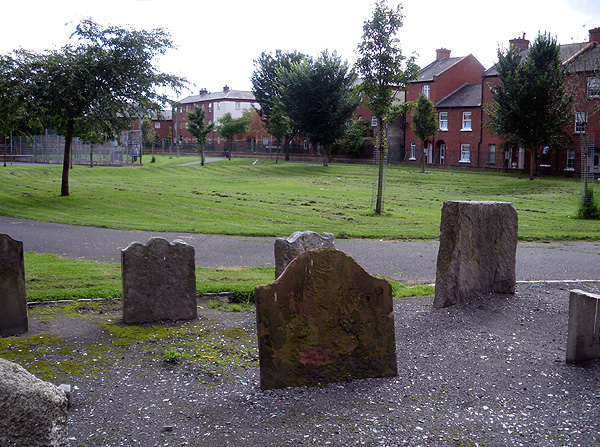 Photo of the former Cabbage Garden Cemetery in Dublin, Ireland.